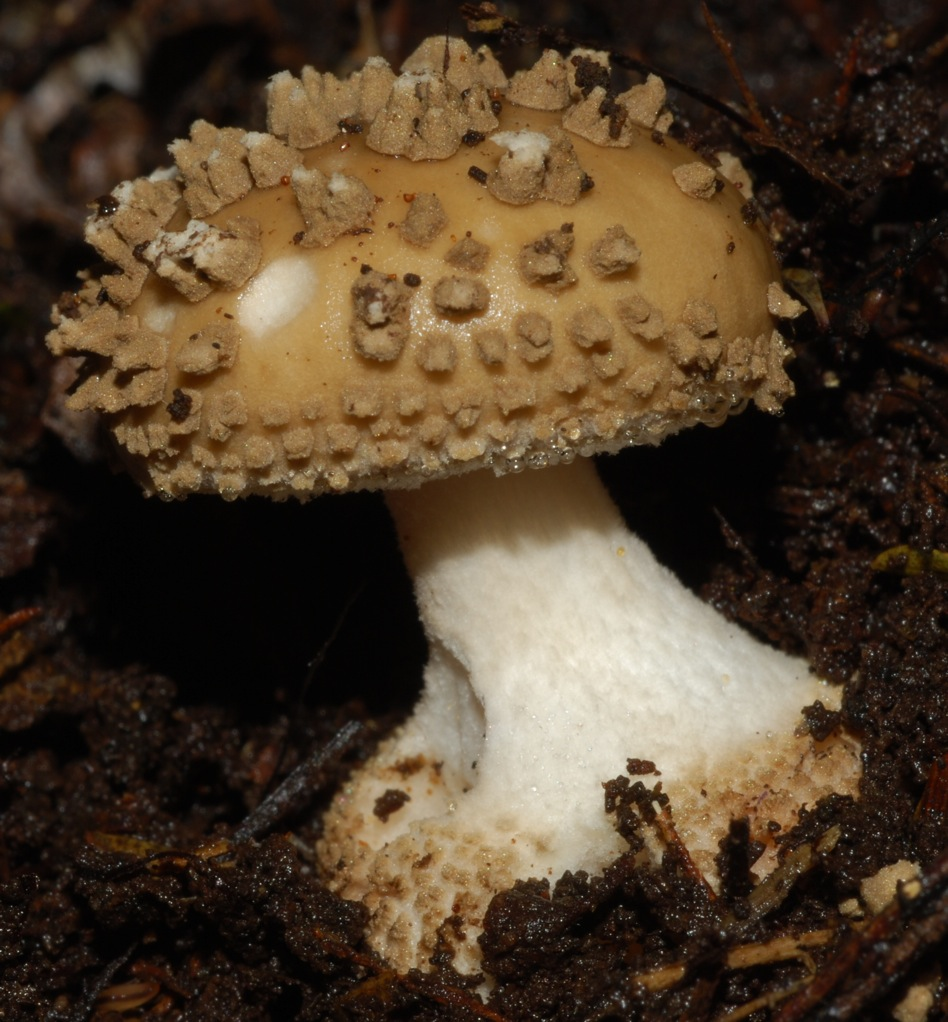 The mushroom Amanita australis G. Stev. Photographed in Kaipara harbour, Auckland, New Zealand. Notes: "On soil under Kunzea ericioides in native New Zealand bush."